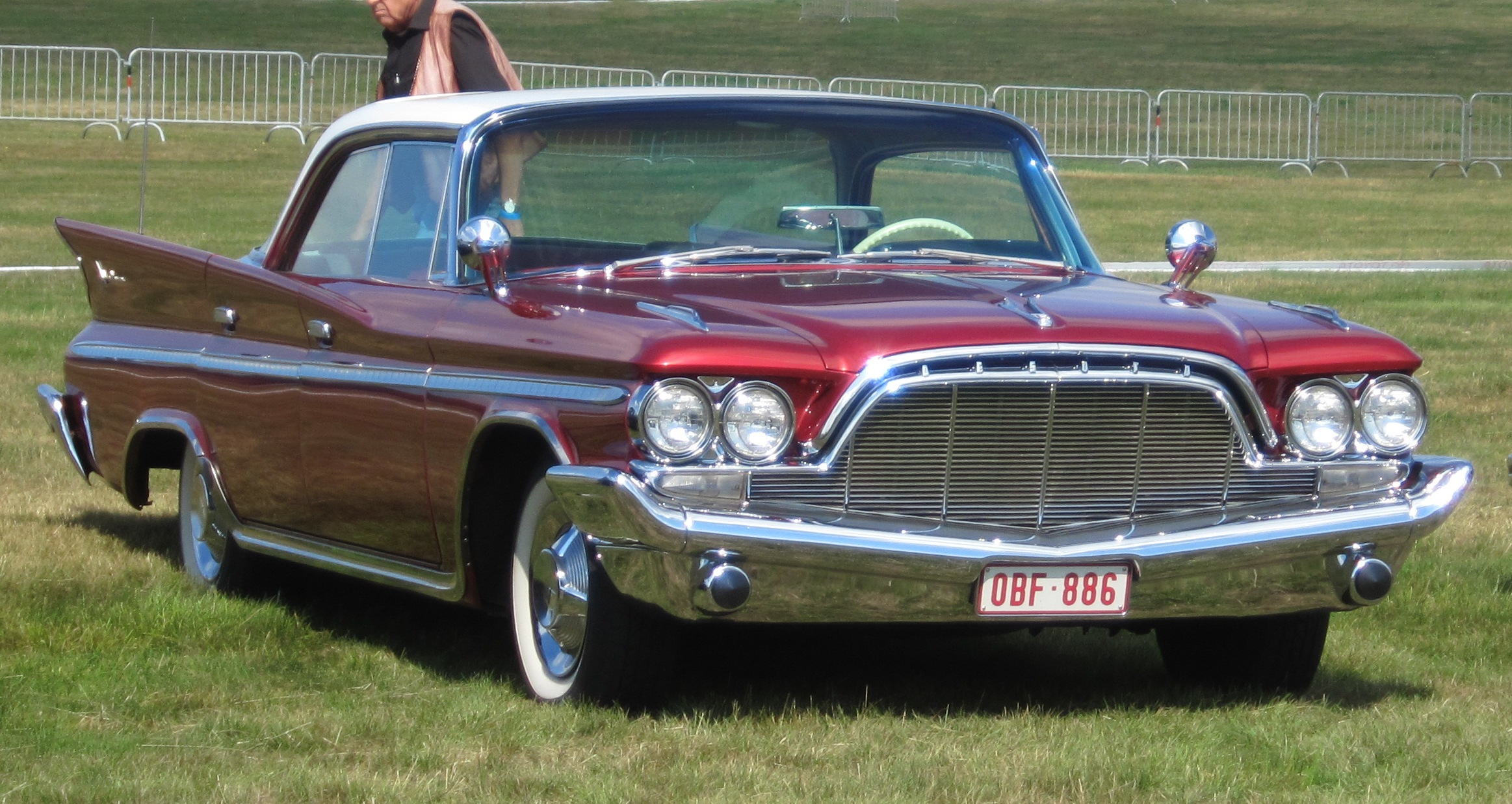 De Soto Adventurer (1960)